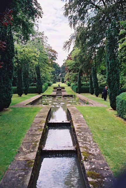 Water gardens Buscot Park Part of the renowned water gardens, overlooked by woodland.